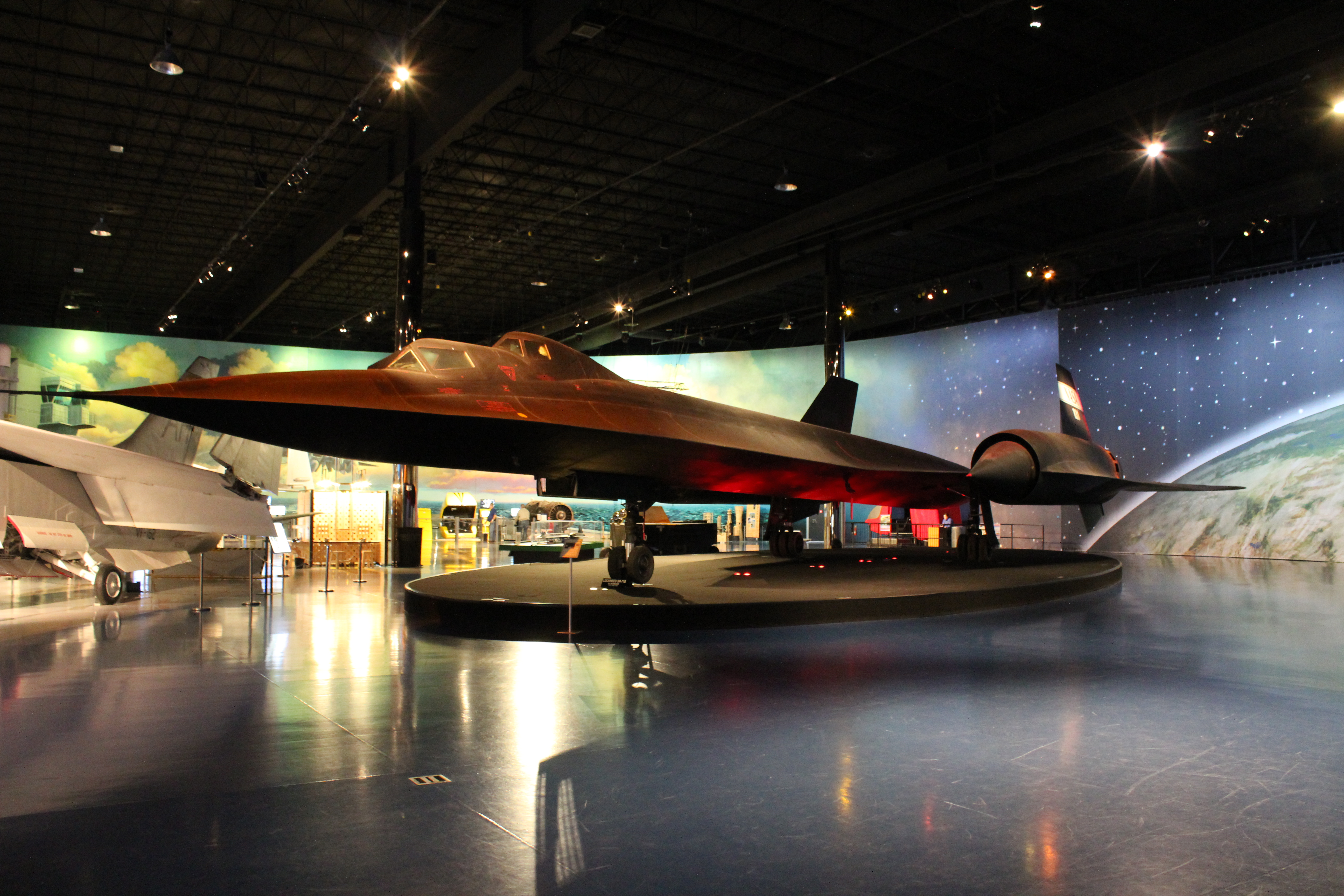 A military plane in the Air Zoo in Kalamazoo.